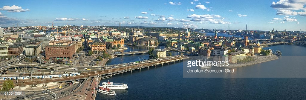 Panorama of Stockholm with a watermark generated by Getty Images.